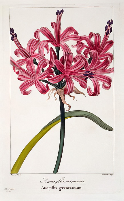 Amaryllis sarniensis, 1836